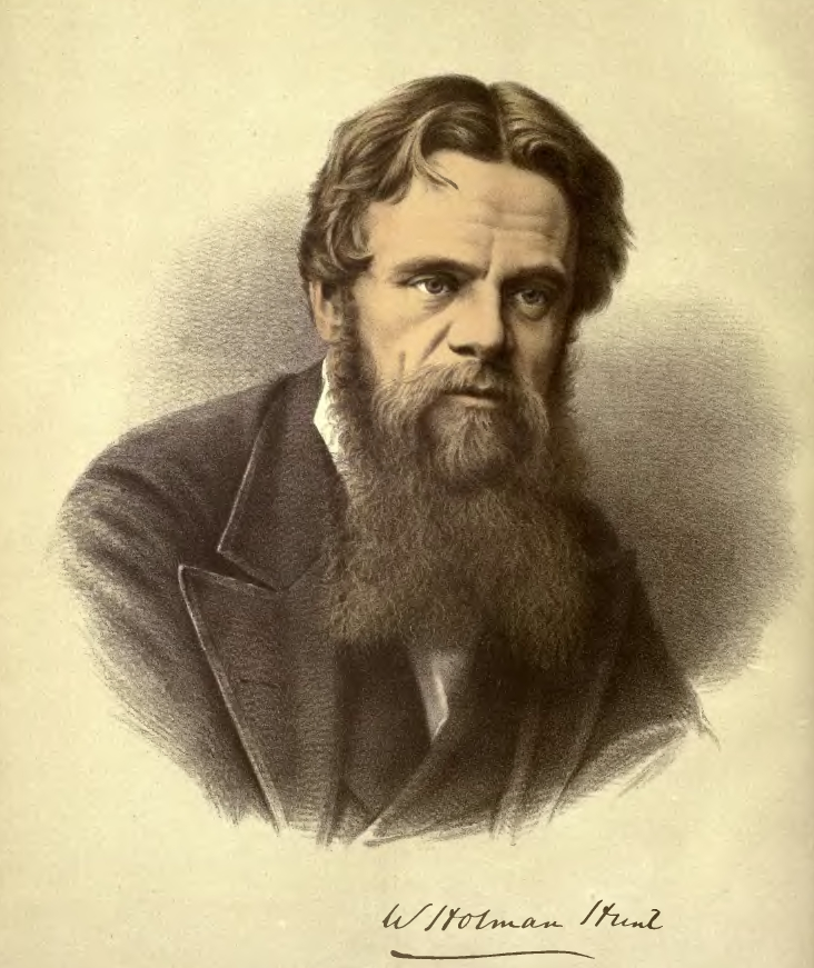 British artist William Holman Hunt.